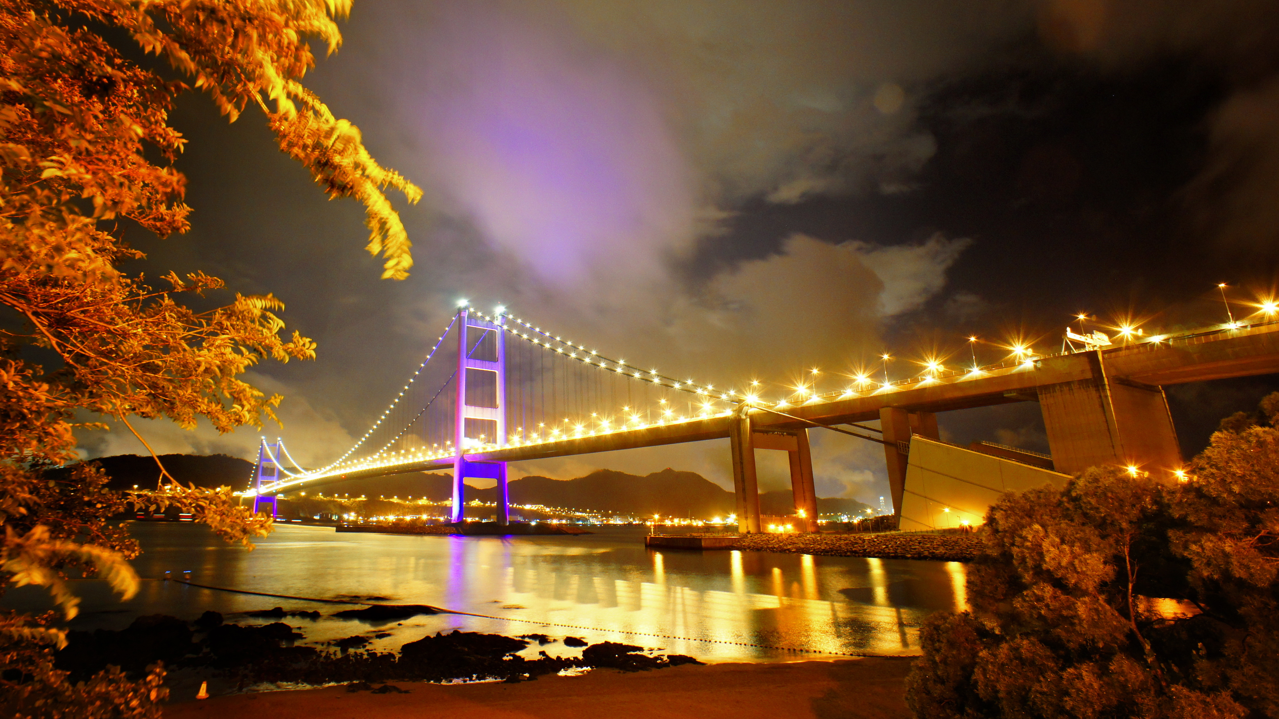 Tung Wan Beach at night, Ma Wan, Hong Kong.